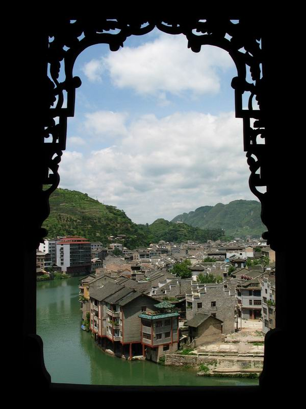 This is a photo taken from Qinglongdong, which shows the view of the whole town of Zhenyuan. I took it personally in July, 2003. Photographer: Shan CONG